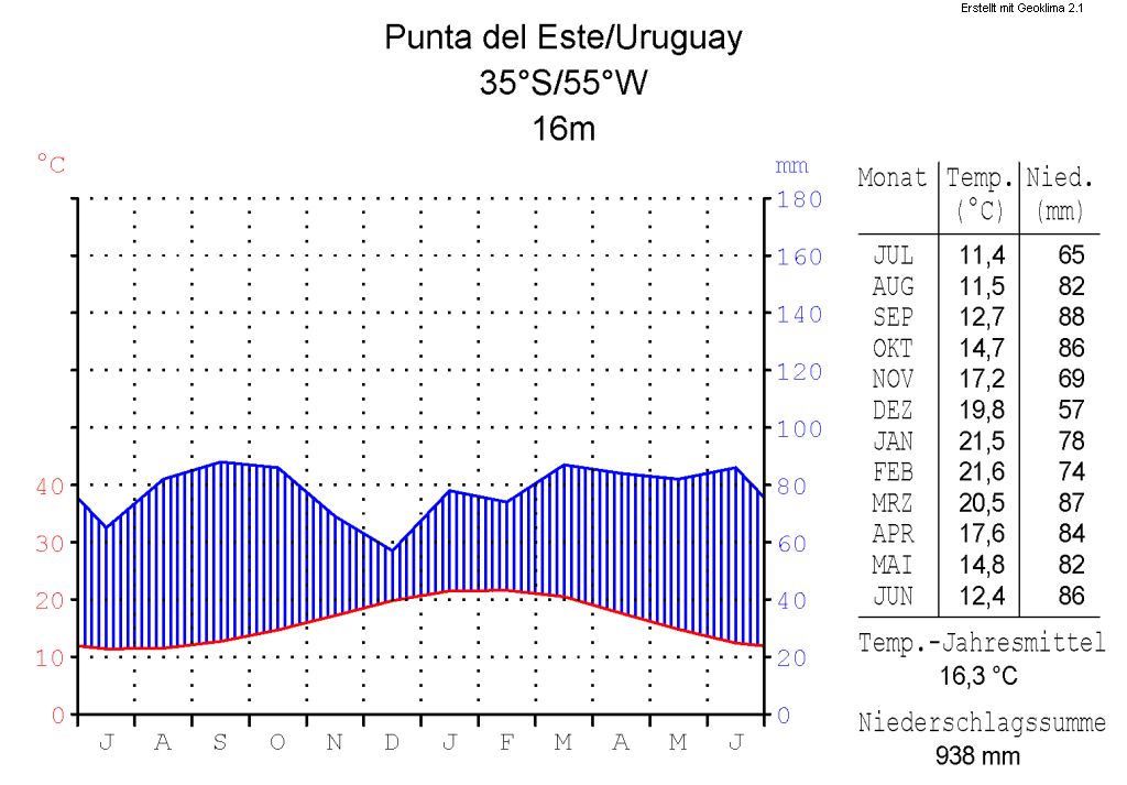 climate chart in the format by Walter and Lieth, metric, °Celsisus and millimeters, made with Geoklima 2.1